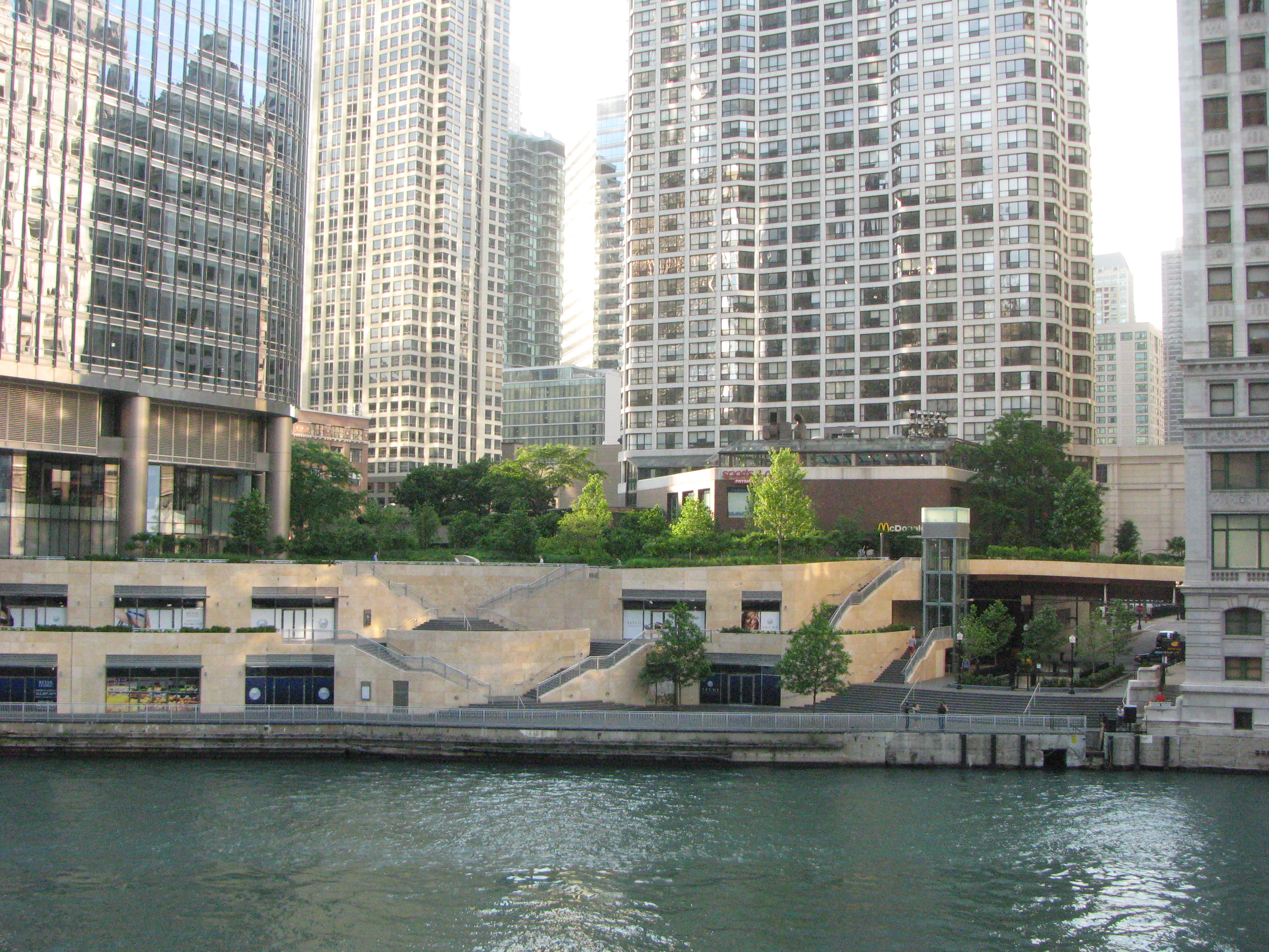 Trump International Hotel and Tower riverfront park and riverwalk at the foot of Rush (Chicago)